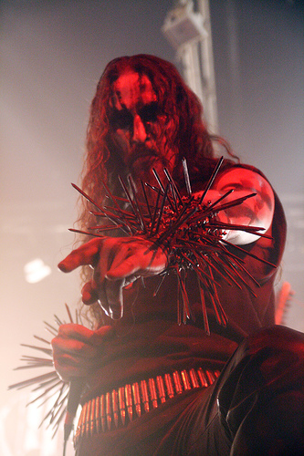 Gaahl, vocalist of the band Gorgoroth, during a concert in 2007 in Paris. I (User:Hervegirod) made this picture myself. The original is on my flickr home page, which states this image is my own work